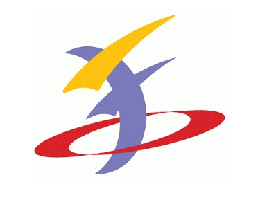 Flag of Fujisaki Aomori